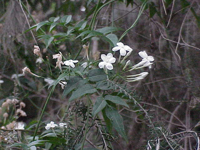 Species: Jasminum polyanthum Family: Oleaceae Image No. 1